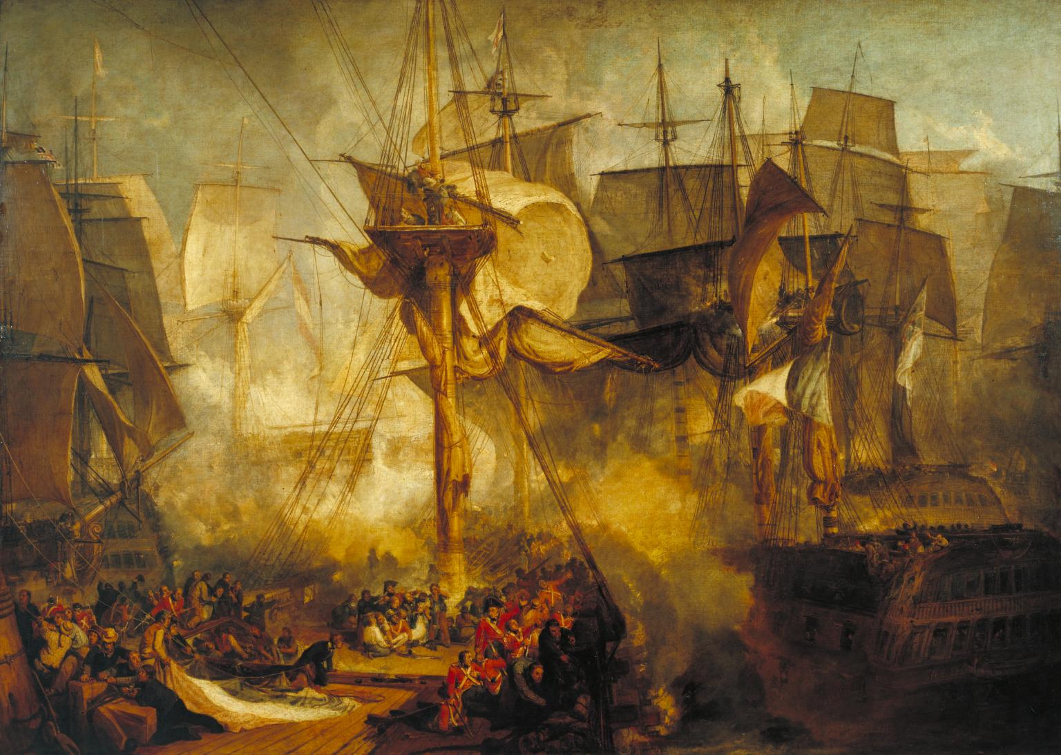 The Battle of Trafalgar, as seen from the mizen starboard shrouds of the Victory by J. M. W. Turner (1806–1808)